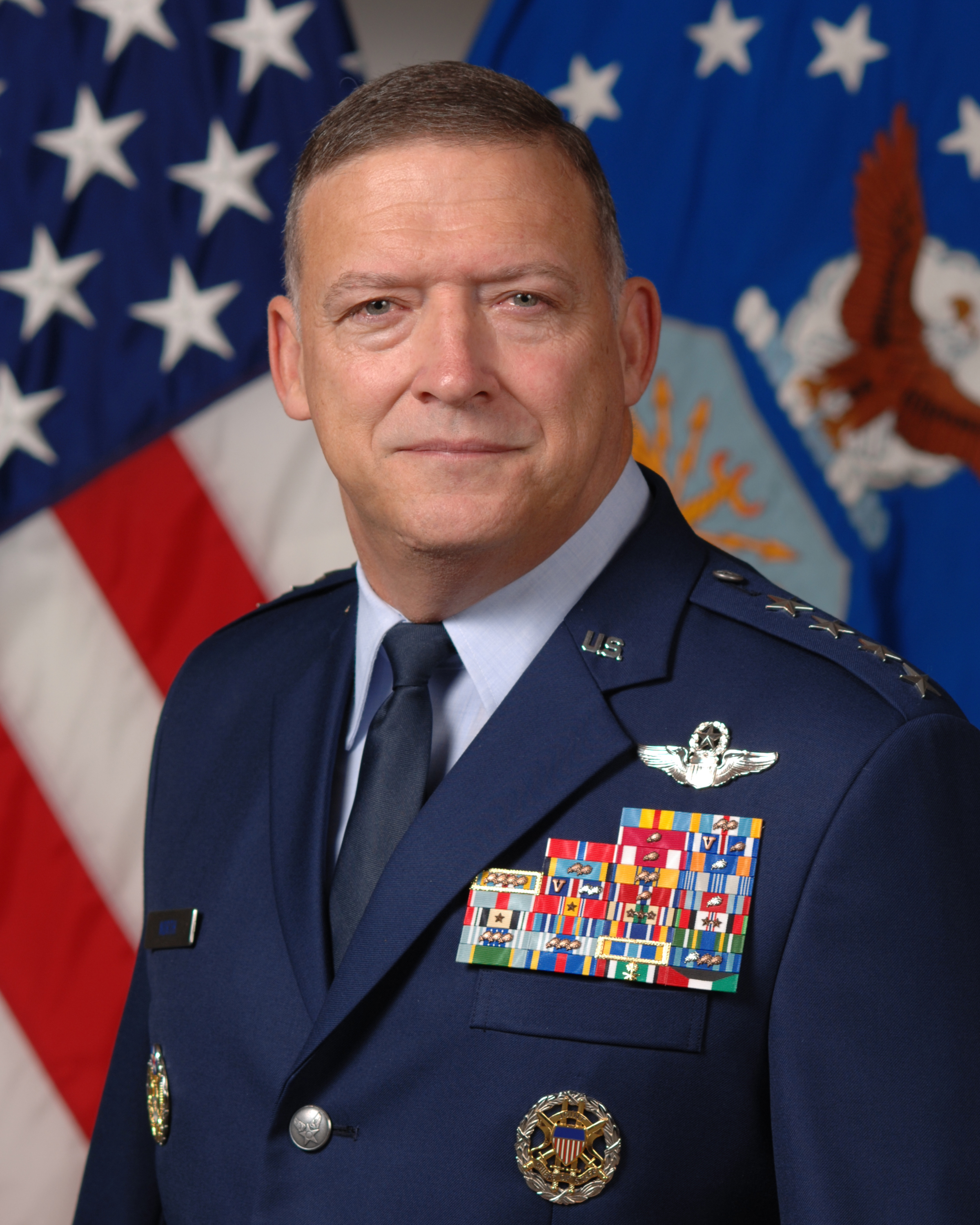 General Gary L. North, USAFCommander, Pacific Air Forces